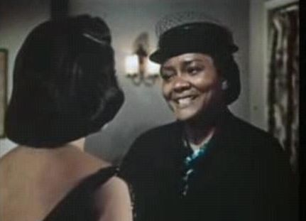 Screenshot of Juanita Moore from the film Imitation of Life